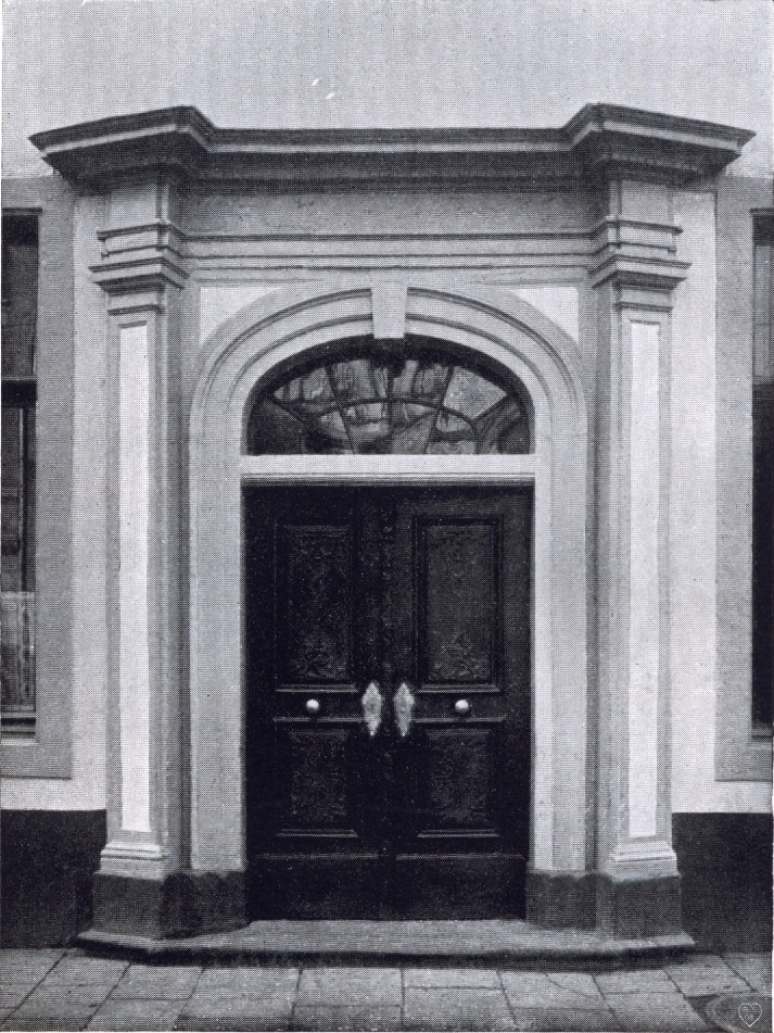 Altestadt 11, Brauerei Schlösser